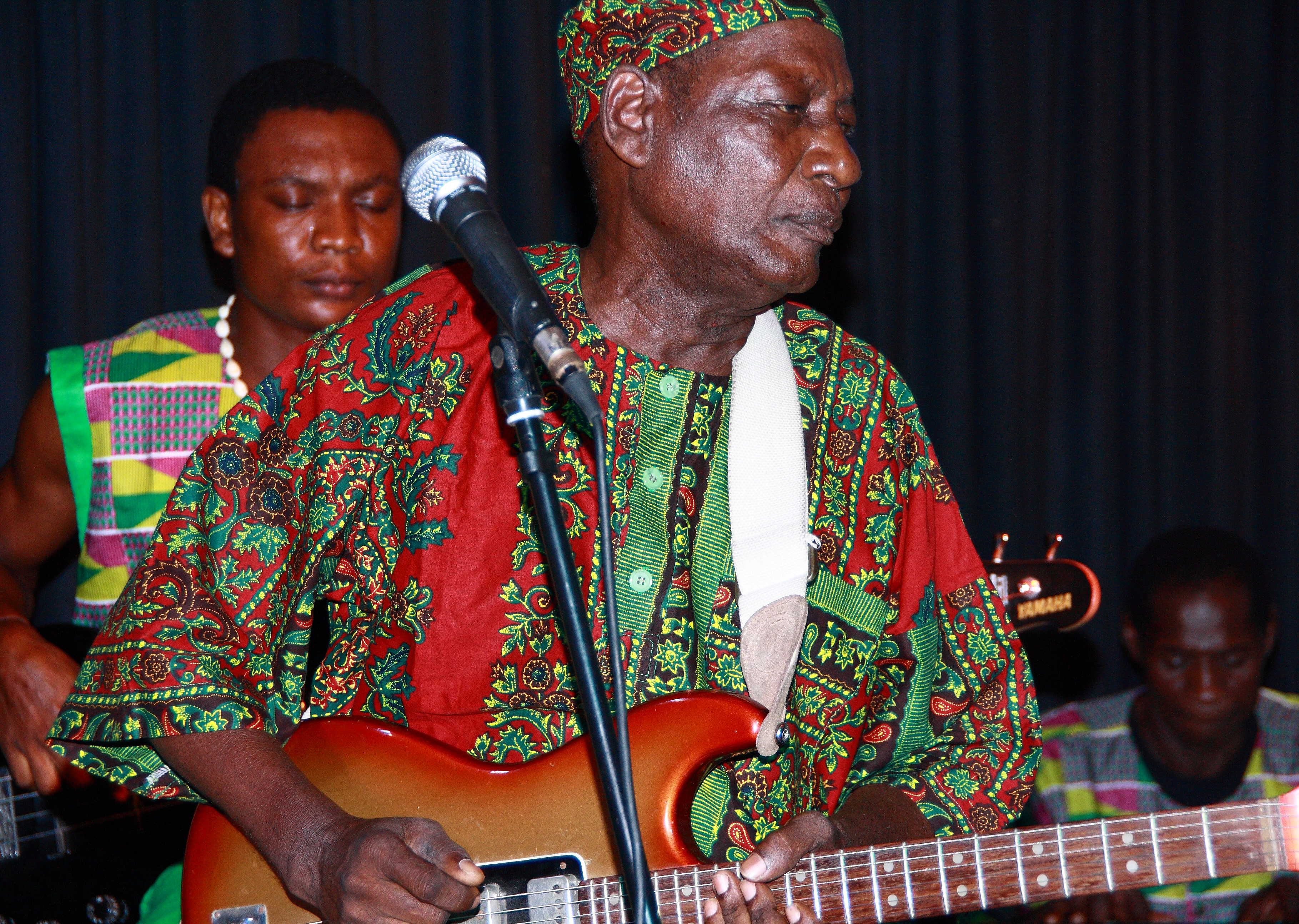 Highlife-Legend Ebo Taylor with his band Bonze Konkoma at Club W71.